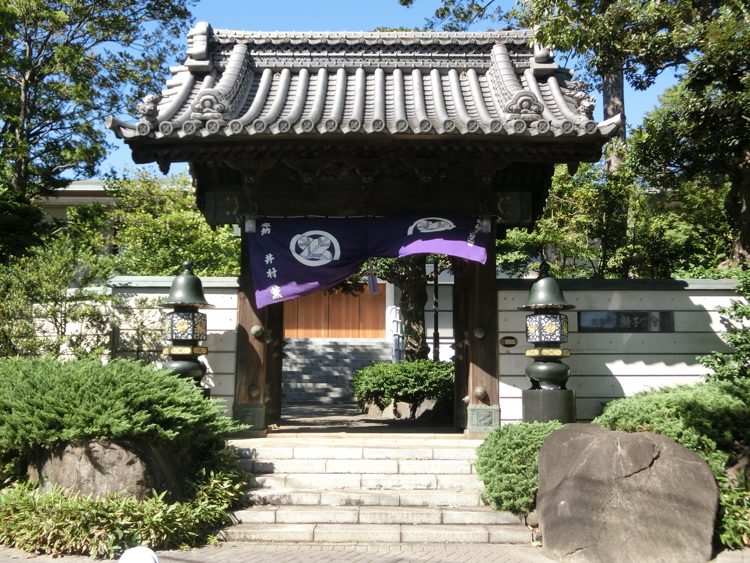 Shishikukai Headquarters